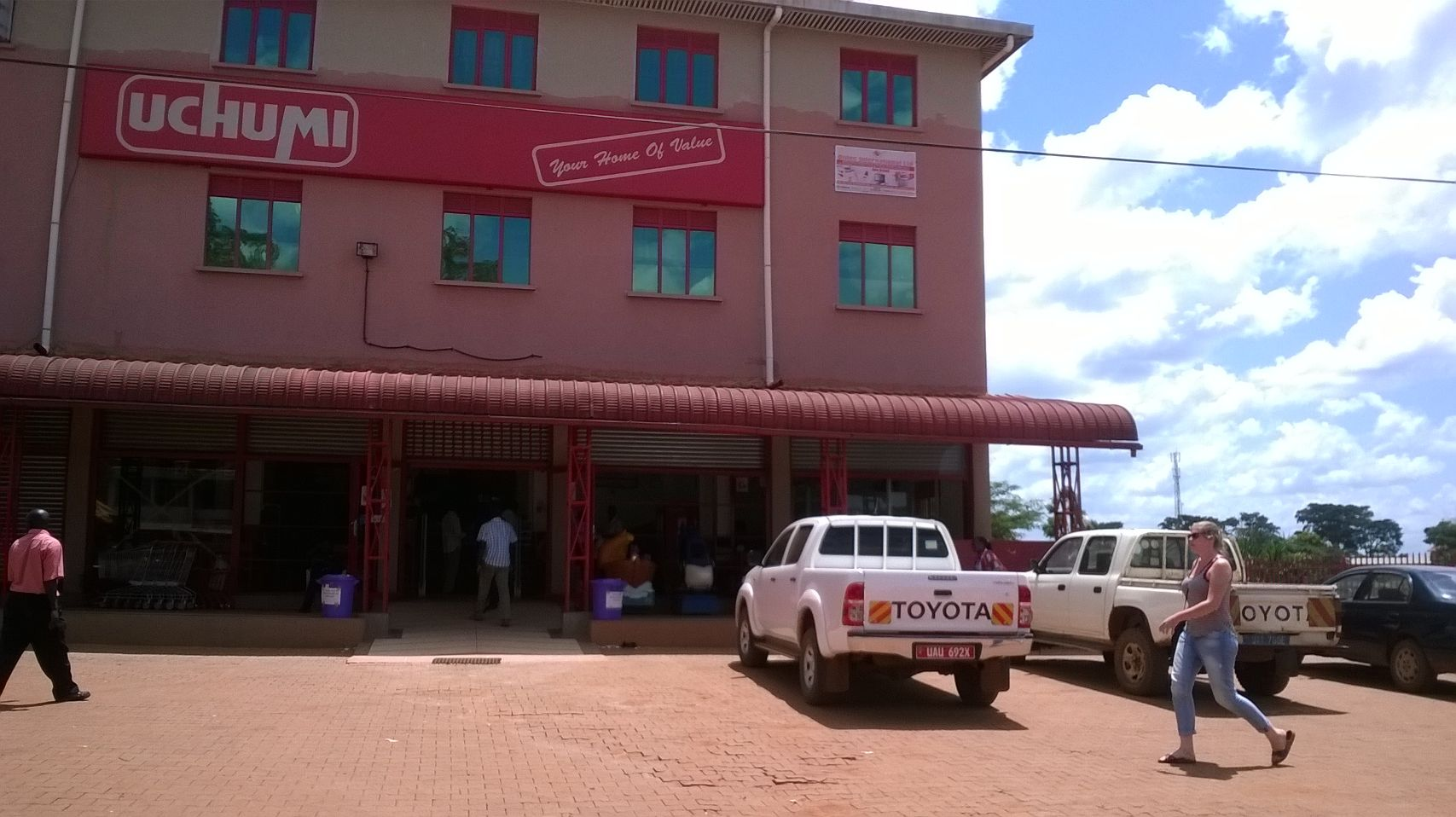 supermarkets in Uganda